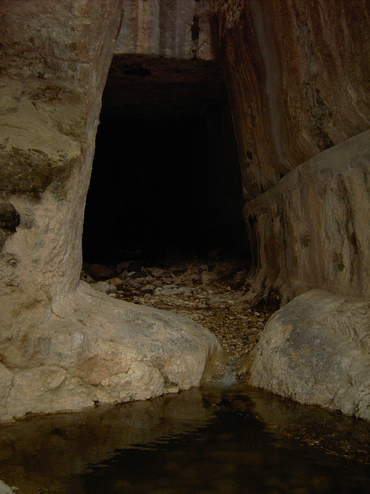 A section of the Titus Tunnel of Seleucia Pieria. It is believed that the tunnel/canal complex, measuring 1350-1400m in total lenght, was dug to divert the nearby river and prevent the harbour from silting up with time. A further reason is assumed to be to help reduce flooding caused during heavy winter rains.